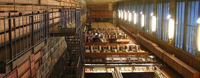 Main reading room of the Bibliothèque Inter-Universitaire de Médecine (Paris).